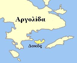 Dokos.